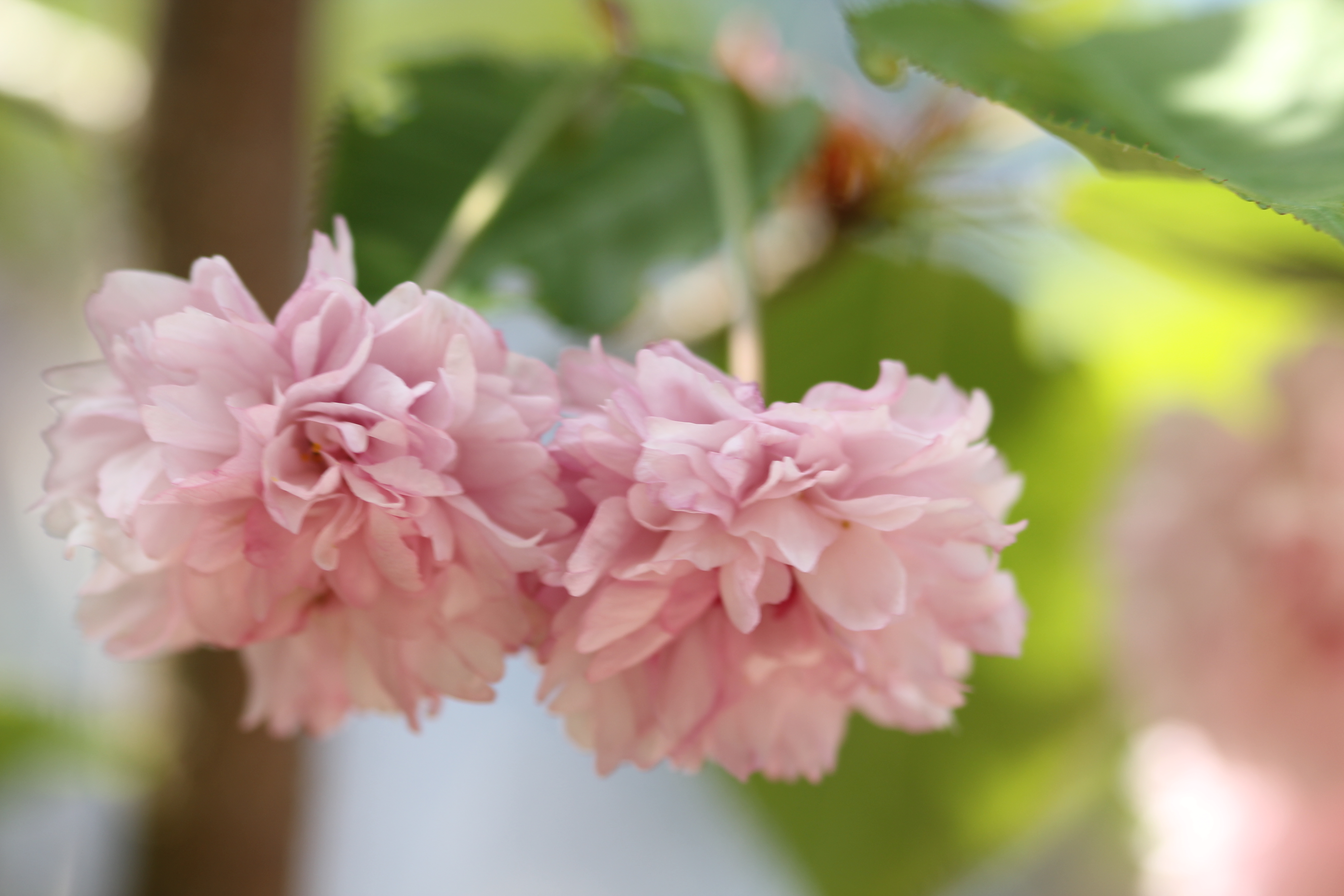 Kiku-zakura